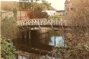 Reinforced concrete bridge over the moat, chateau of Chazelet, France. Built by Joseph Monier 1875.